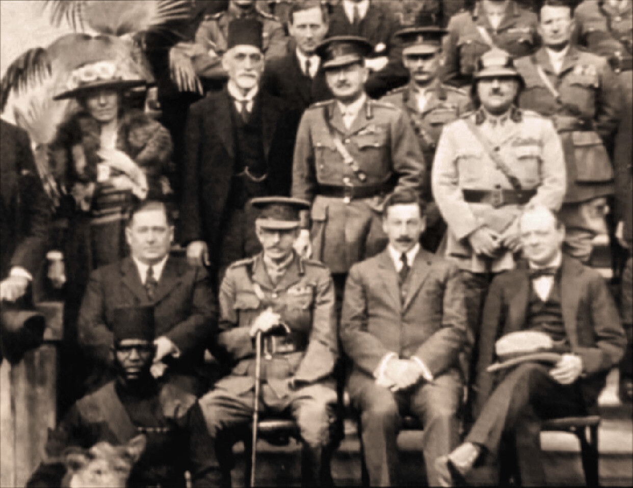 Archive photo taken at the Cairo Conference- 1921. Seated: from right: Winston Churchill, Herbert Samuel. Standing first row: from left: Gertrude Bell, Sir Sassoon Eskell, Field Marshal Edmund Allenby, Jafar Pasha al-Askari